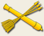 Collar insignia of the Air Defence Troops of the Russian Ground Forces